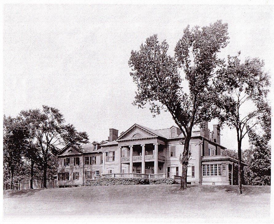 Georgian home built by Franklin and Charlotte Spaulding Sidway - "River Lawn"